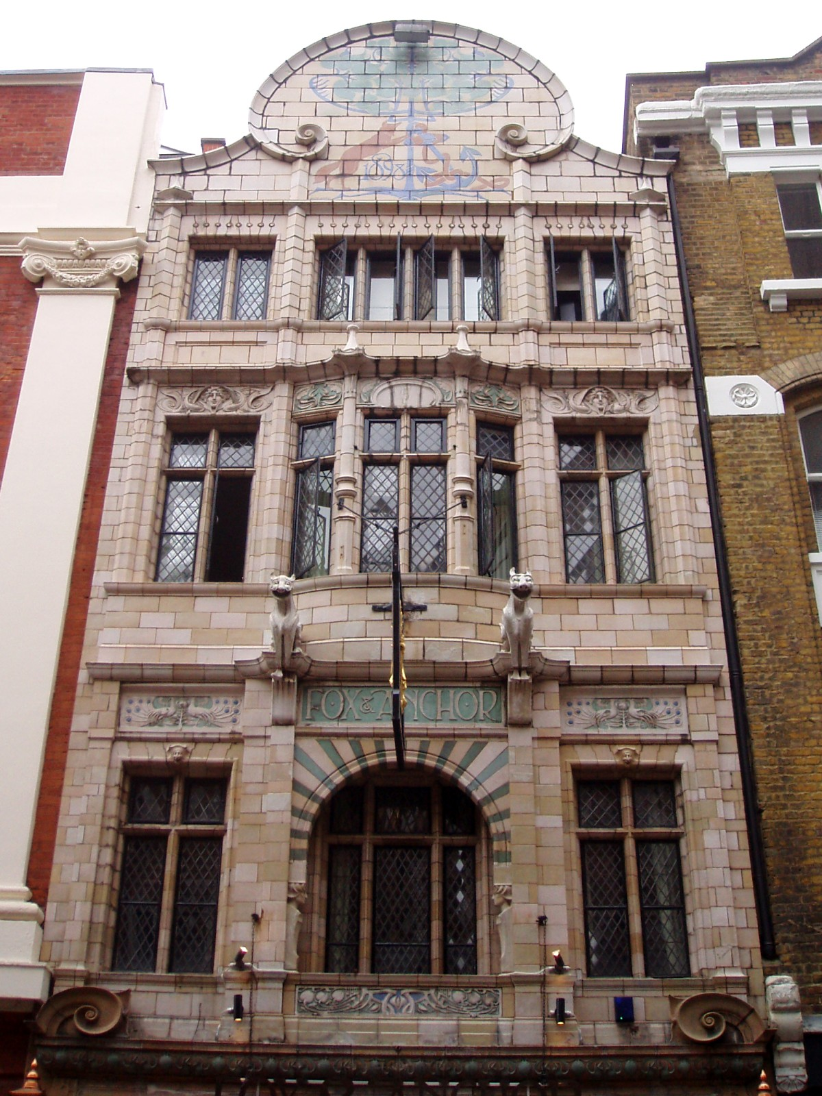 The glorious facade of the Fox & Anchor pub. (View of pub.)